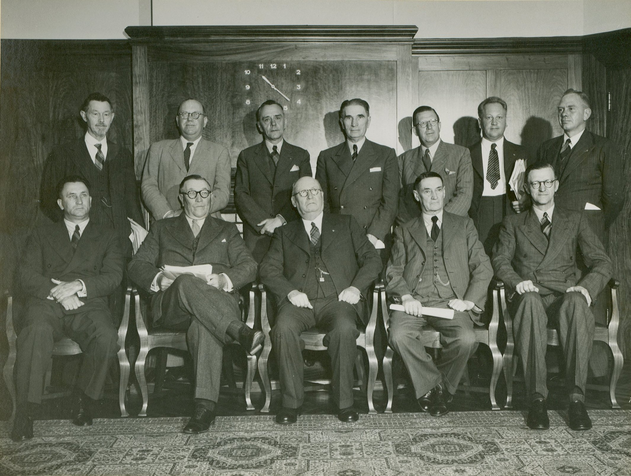 DF Malan's 1st government, South Africa, elected by a majority of seats, but a minority of votes, in 1948.• Front (left to right): J.G. Strydom, N.C. Havenga, D.F. Malan, E.G. Jansen and C.R. Swart.• Back (left to right): A.J. Stals, P.O. Sauer, E.H. Louw, S.P. le Roux, T.E. Dönges, F.C. Erasmus and B.J. Schoeman.N.C. Havenga was not a member of the Afrikaner Broederbond.